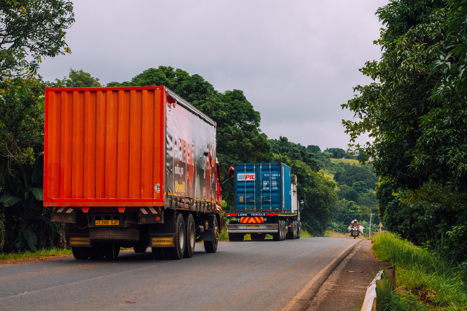 Transportation This is an image with the theme "Africa on the Move or Transport" from: Tanzania